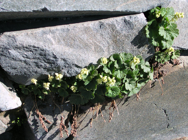 Elmera racemosa Dicot Saxifragaceae Elmera fuzzy elmera, yellow coralbells Thanks to edgeplot for help in the ID Mount Rainier, trail from Sunrise to Frozen Lake Elevation ~ 2000 meters (6600 feet) Unknown Sunrise-Frozen LkDSCx0185a